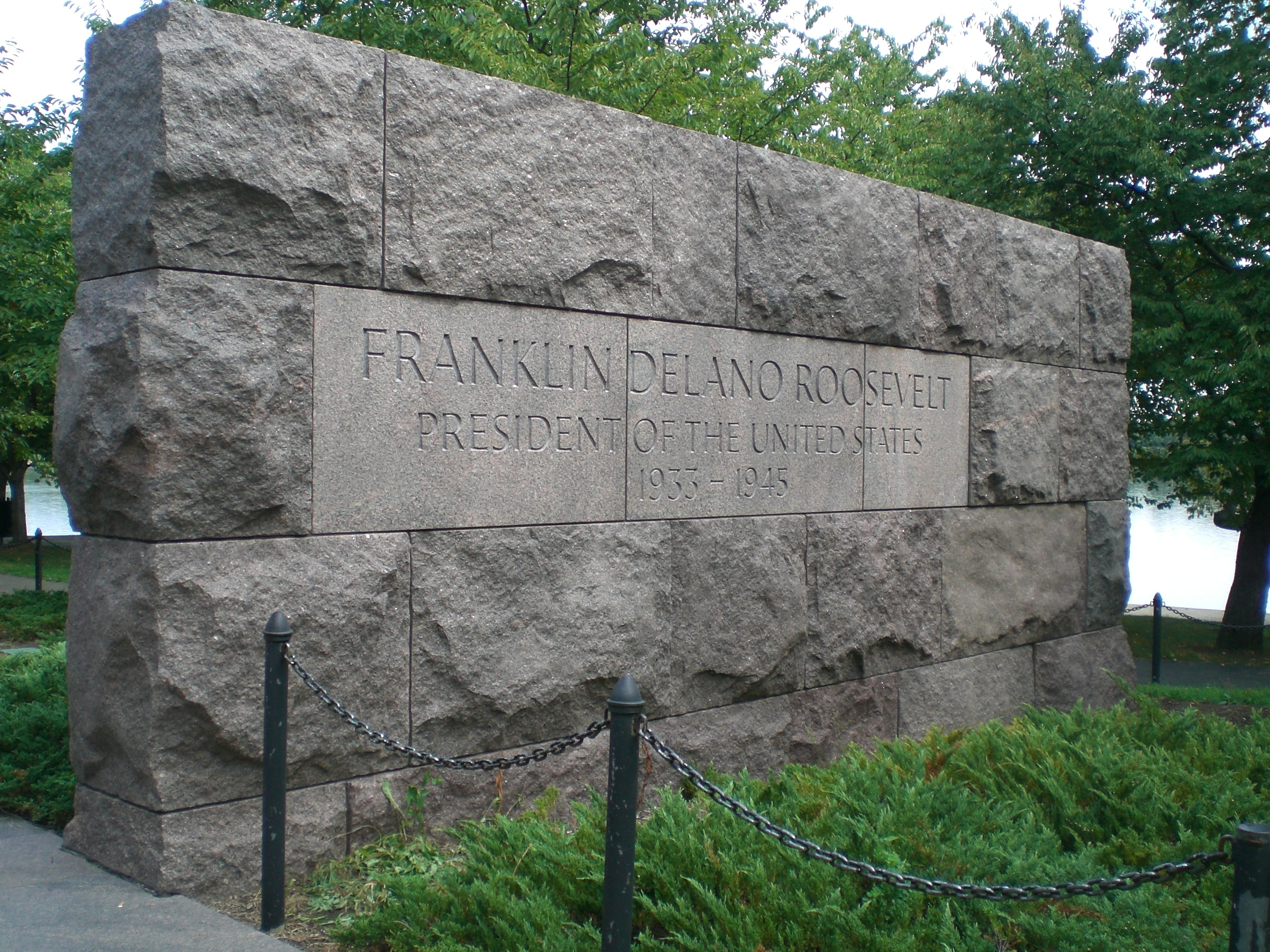 The sign in front of the FDR Memorial in Washington DC